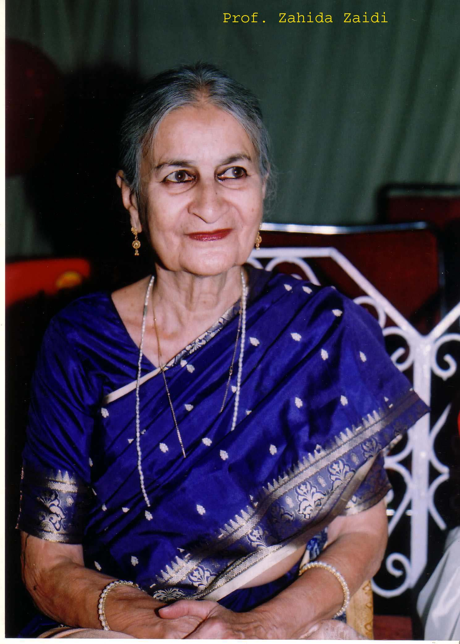 Provided by Professor Mohammad Asim Siddiqui